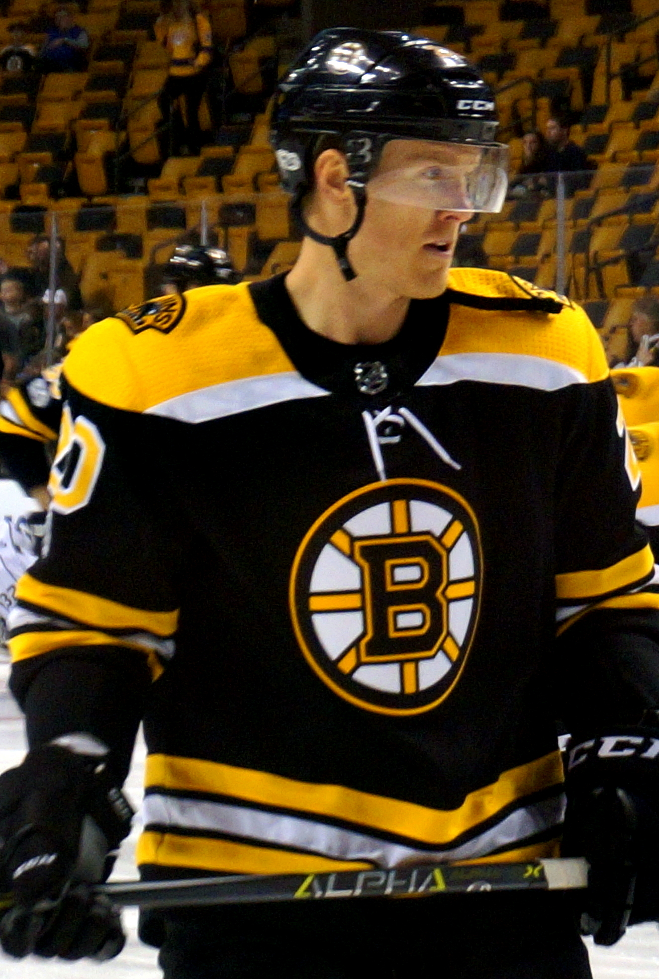 Riley Nash with the Boston Bruins, October 2017